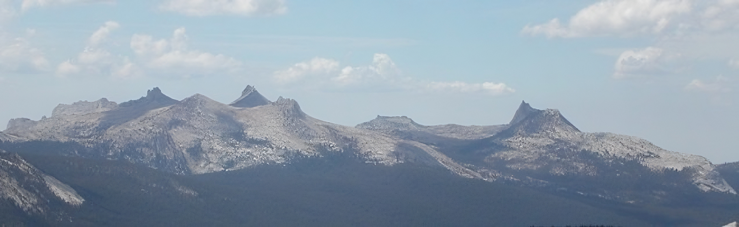 Cathedral Range, Yosemite National Park, United States. View from Gaylor Lakes